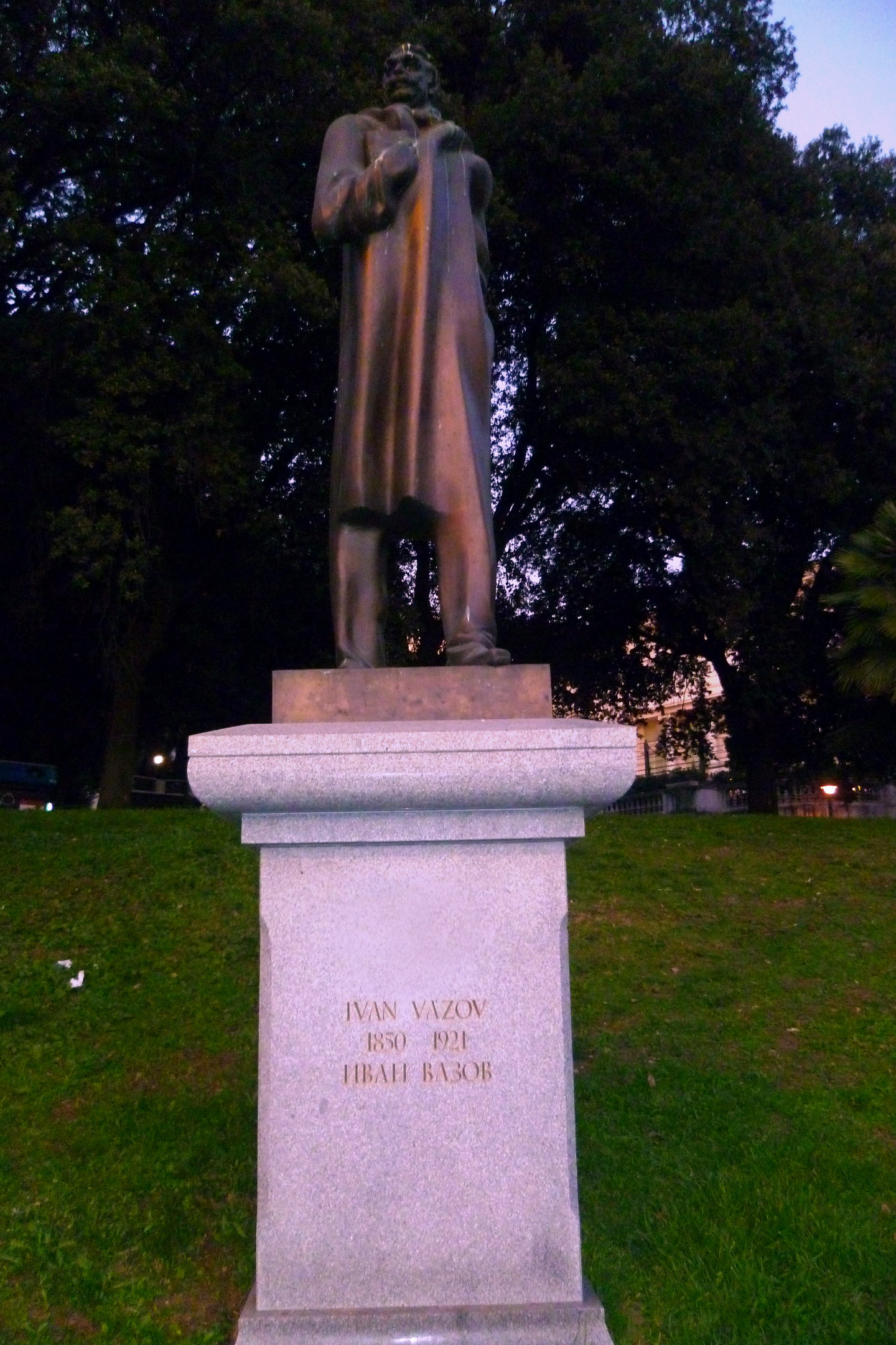 Memorial Ivan Vazov, Roma, Italy